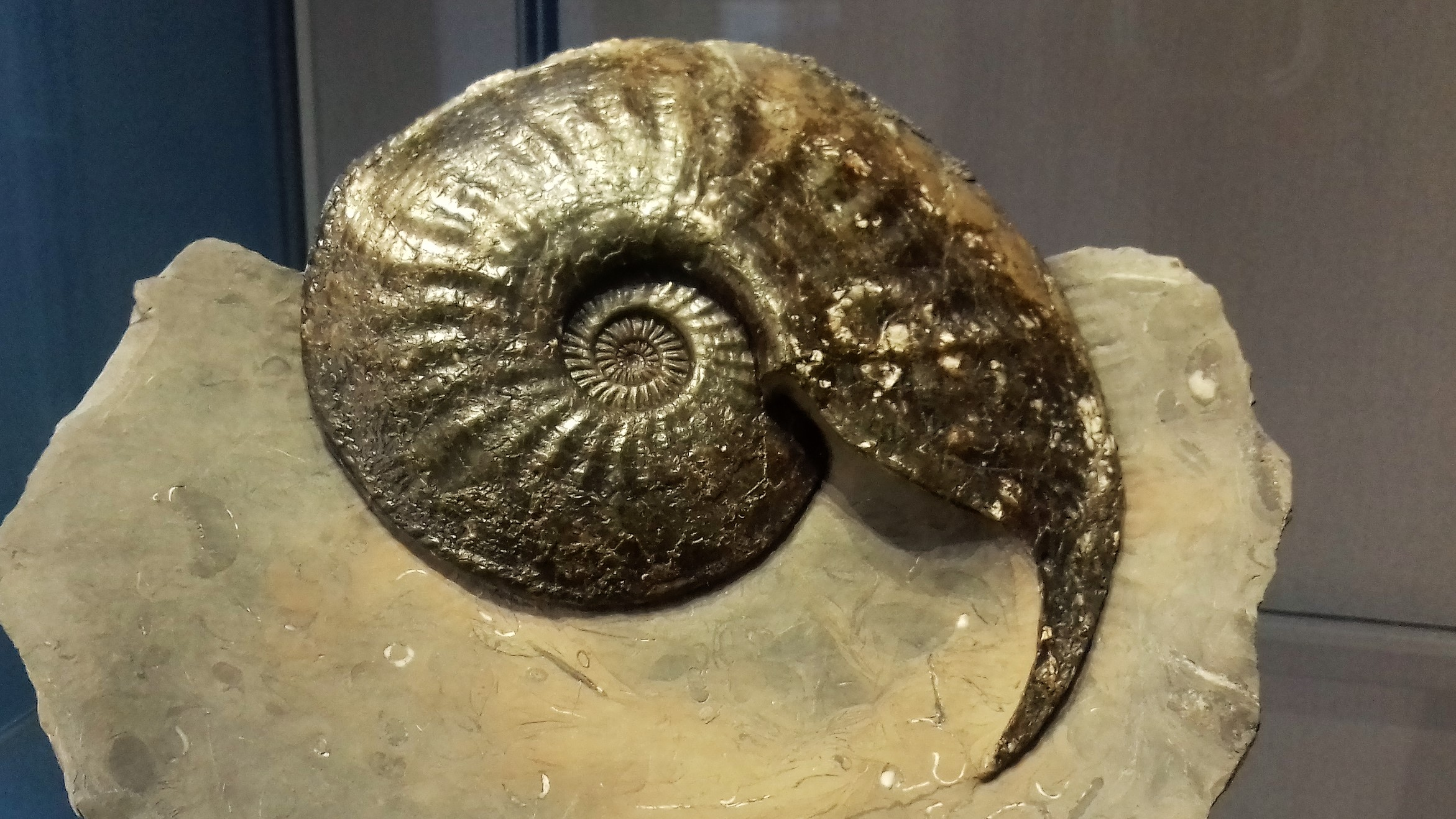 Amaltheus margaritatus in the Rotunda Museum, Scarborough, England.